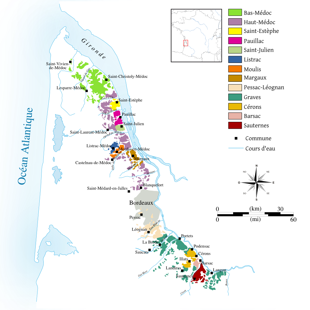 Wine-growing areas of the left bank of Bordeaux; Médoc, Graves and Sauternes